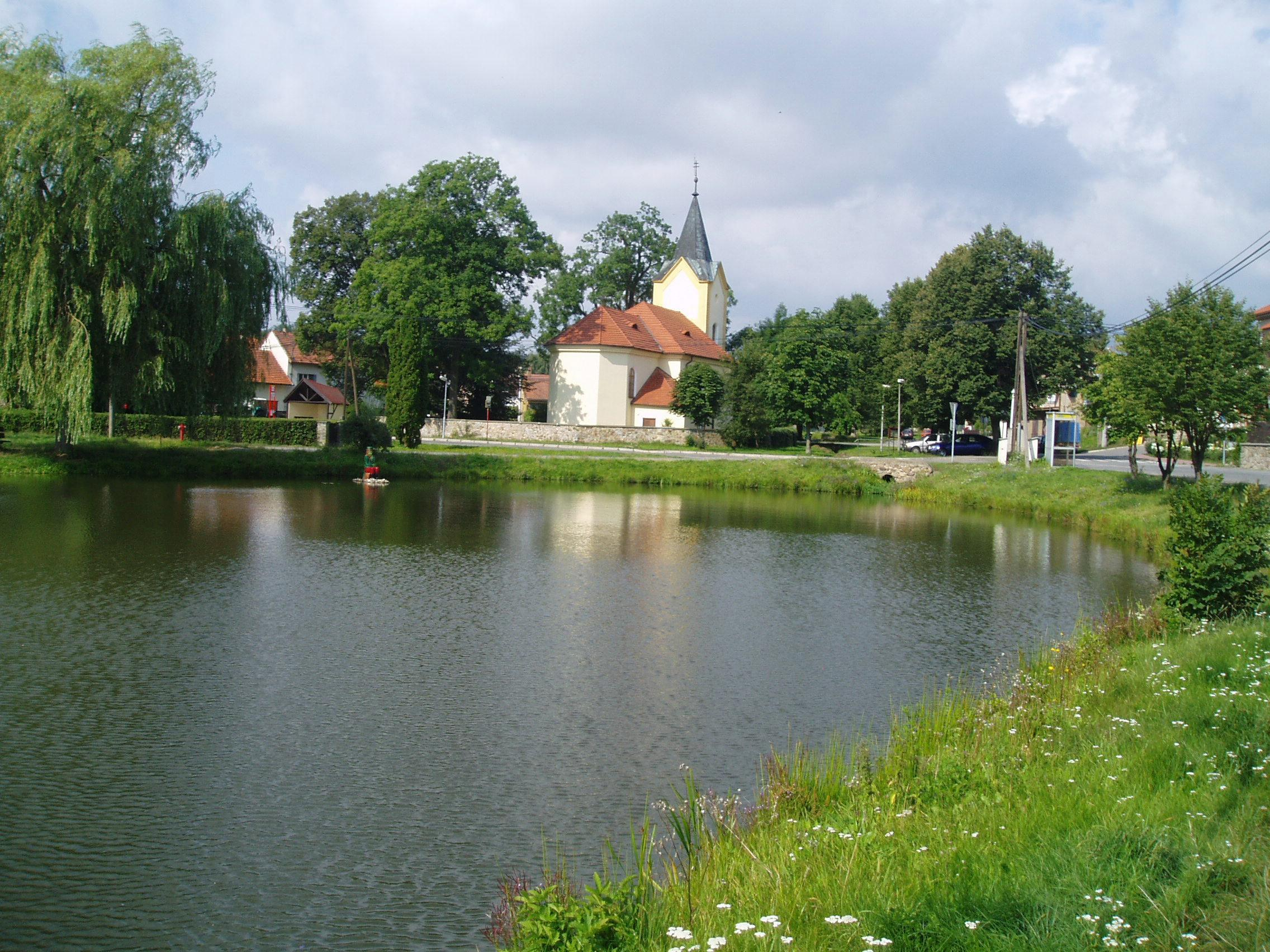 Village green in Kytín with the Church of Assumption of Mary, view from the East